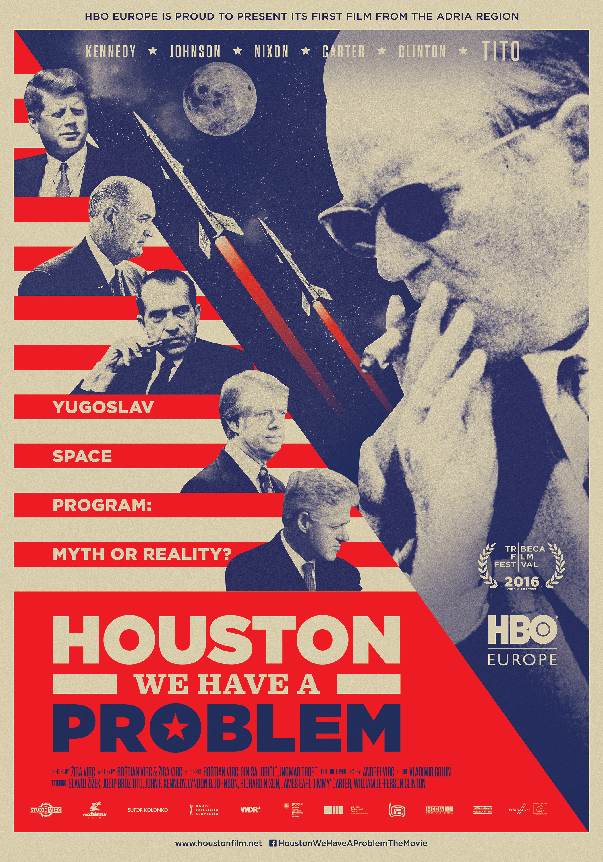 Houston, We Have a Problem! official movie poster